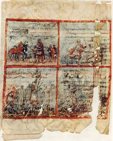 Folio 2 recto from the Quedlinburg Itala fragment (Berlin, Staatsbibliothek Preussischer Kulturbesitz, Cod. theol. lat. fol. 485)